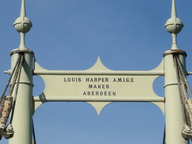 Sellack Suspension Bridge Detail